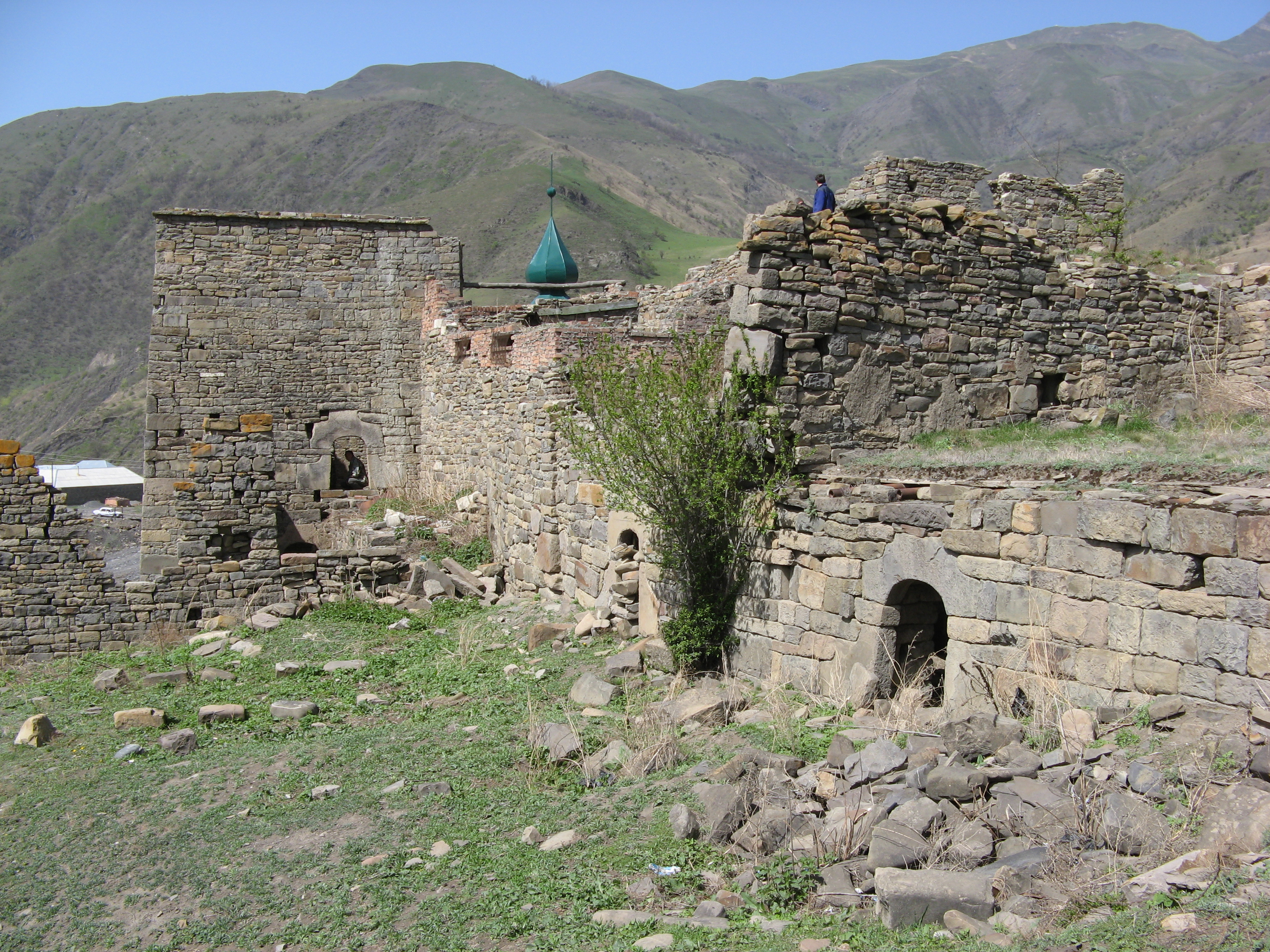 Itum-Kale_fortress